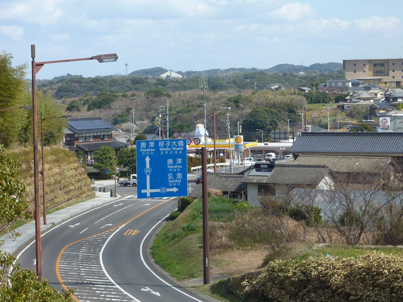 National Route 204 in Nagoya, Karatsu City, Saga Prefecture, Japan